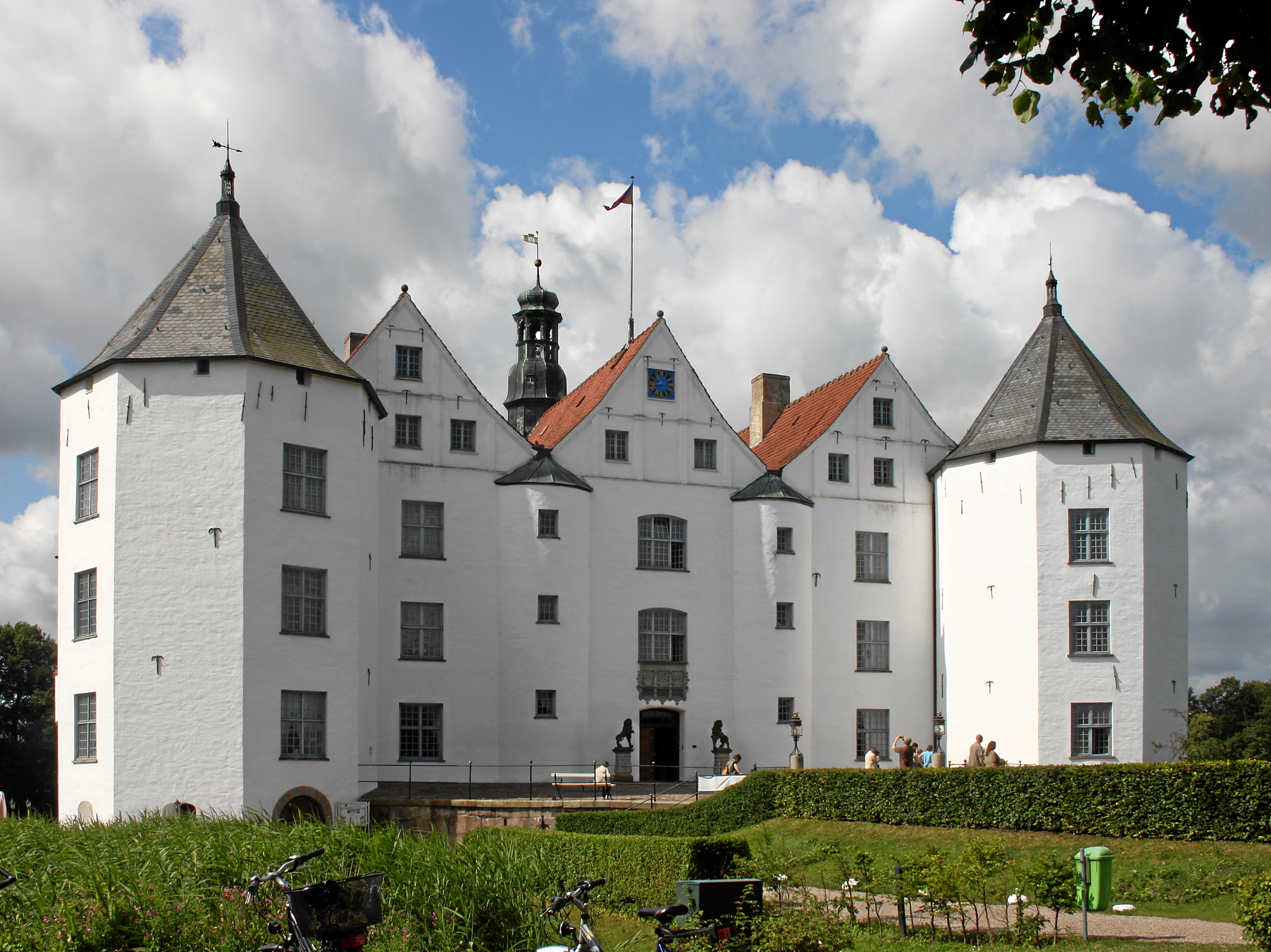 Glücksburg, Germany. Glücksburg castle, exterior view from North.